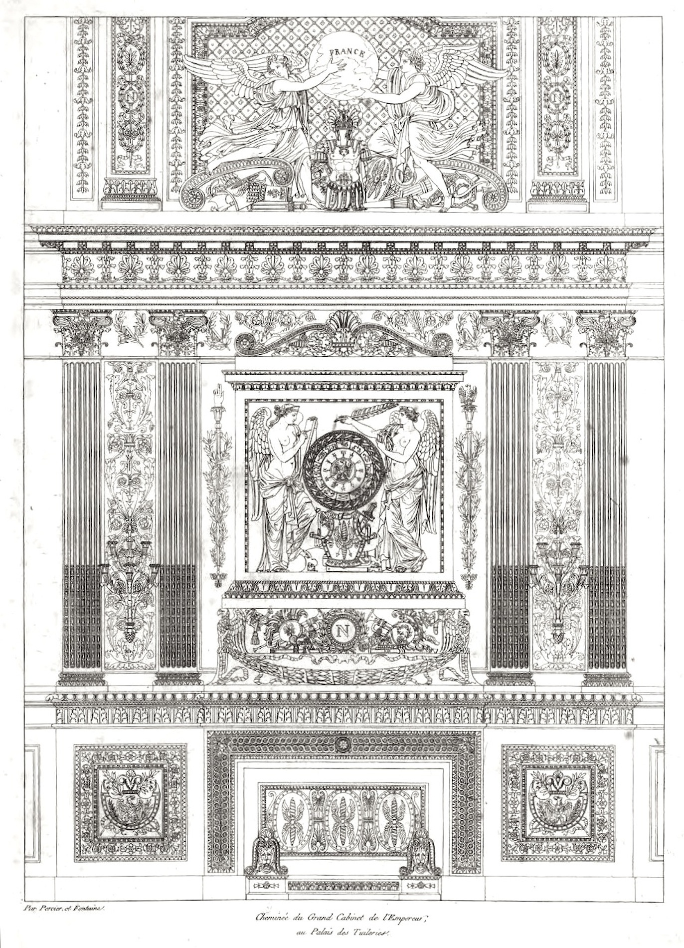 Design for a monumental chimney for Napoleon Bonaparte. This chimney in white marble and gilt bronze was installed in October 1810 in the Grand Office of Louis XIV at the Tuileries Palace, which was destroyed by fire in 1871 and later demolished in 1883.